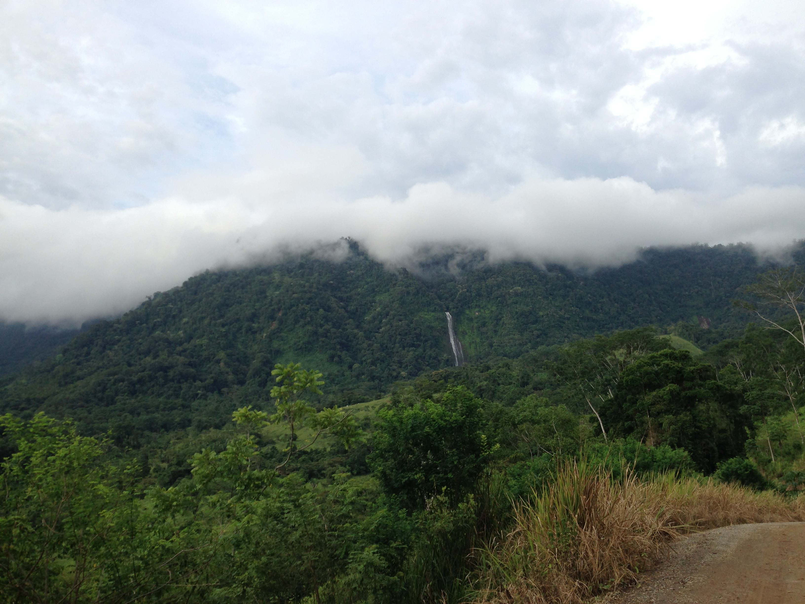 Waterfall in the mountains.